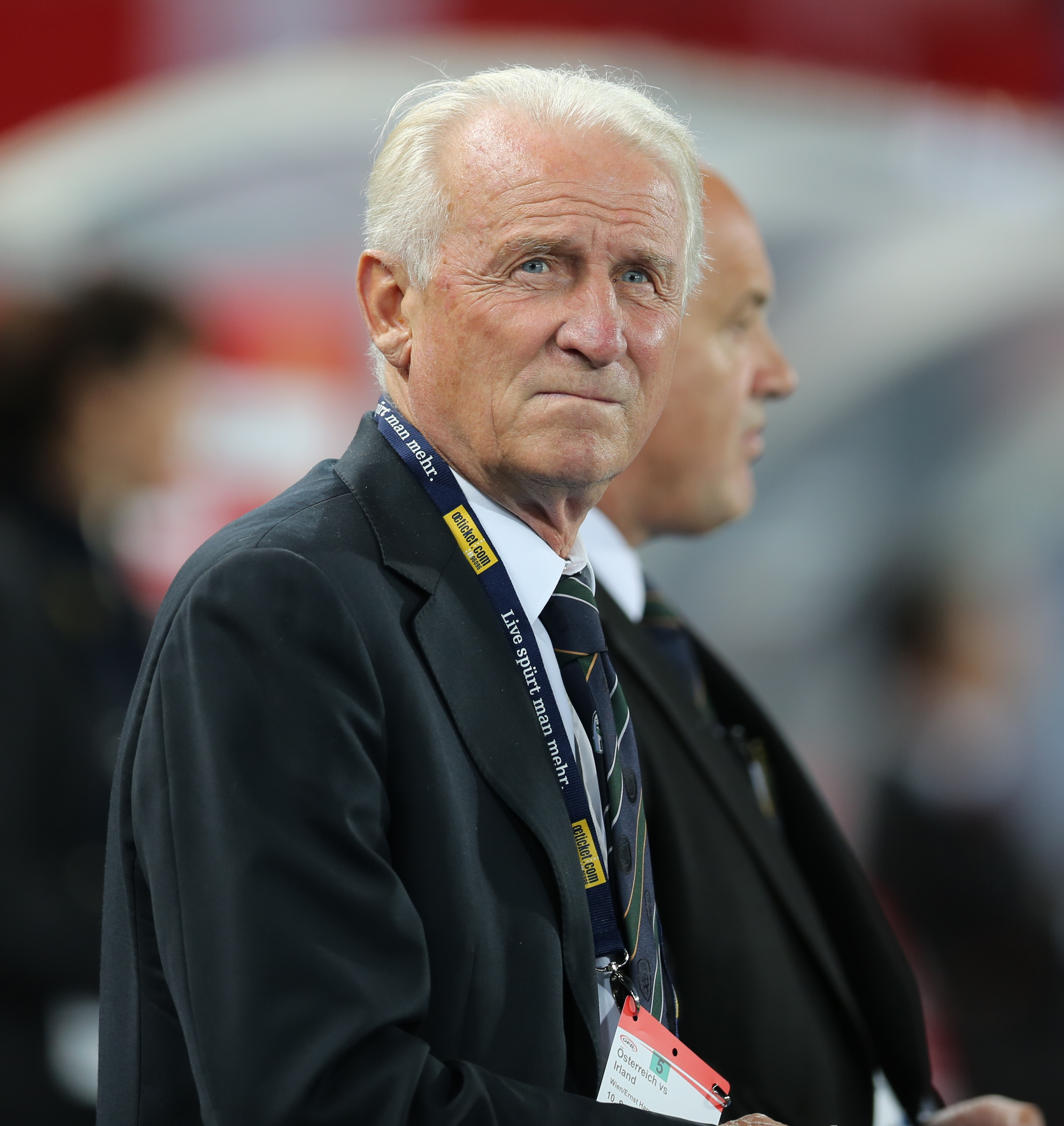 2014 FIFA World Cup qualification (UEFA), Group C: Republic of Ireland national football team at 10. September 2013 before the match against the Austria national football team (0:1) in the Ernst-Happel-Stadion in Vienna. Here: Giovanni Trapattoni, Irish head coach. The making of this work was supported by Wikimedia Austria. For other files made with the support of Wikimedia Austria, please see the category Supported by Wikimedia Österreich.